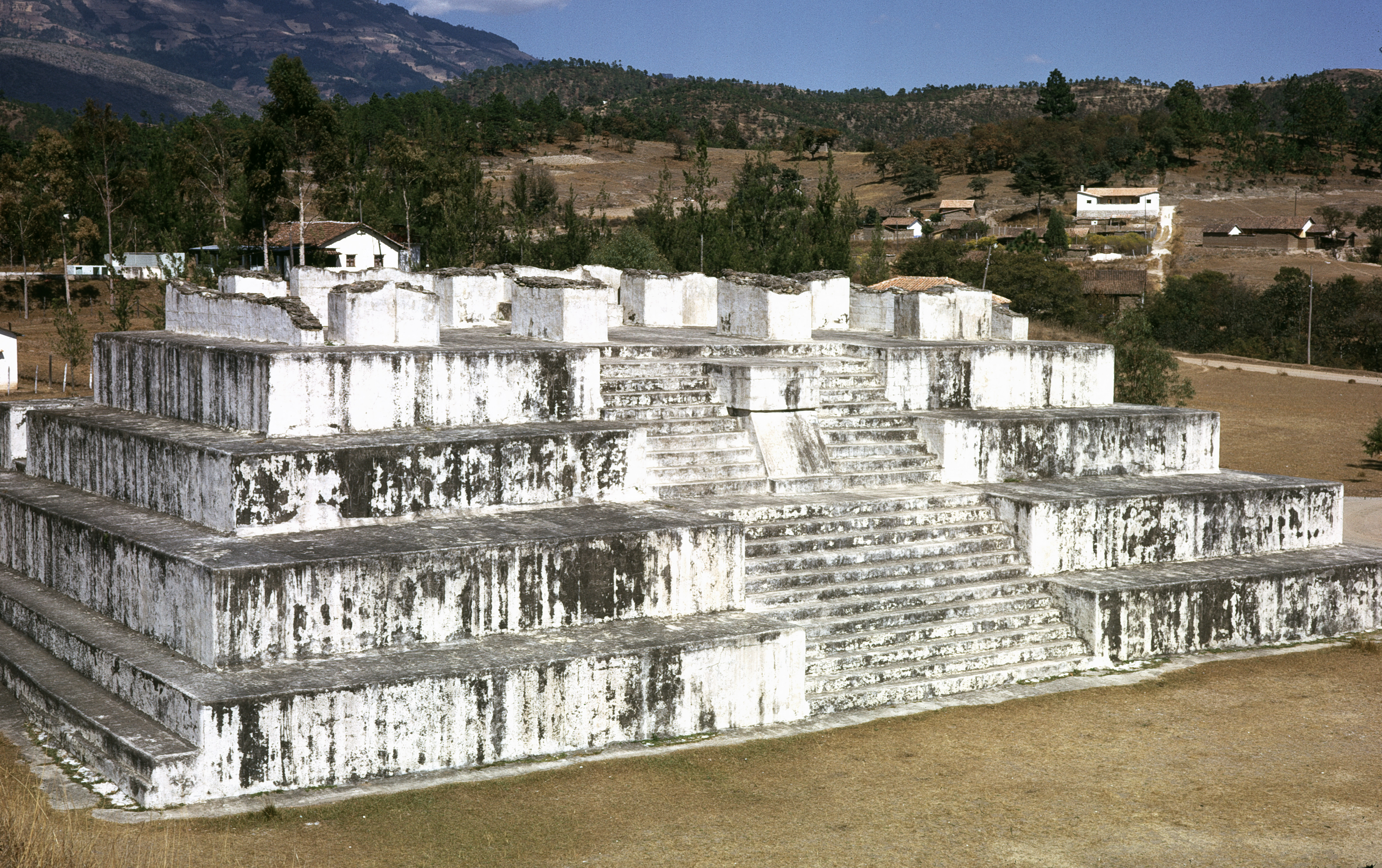 Zacuelu, Guatemala